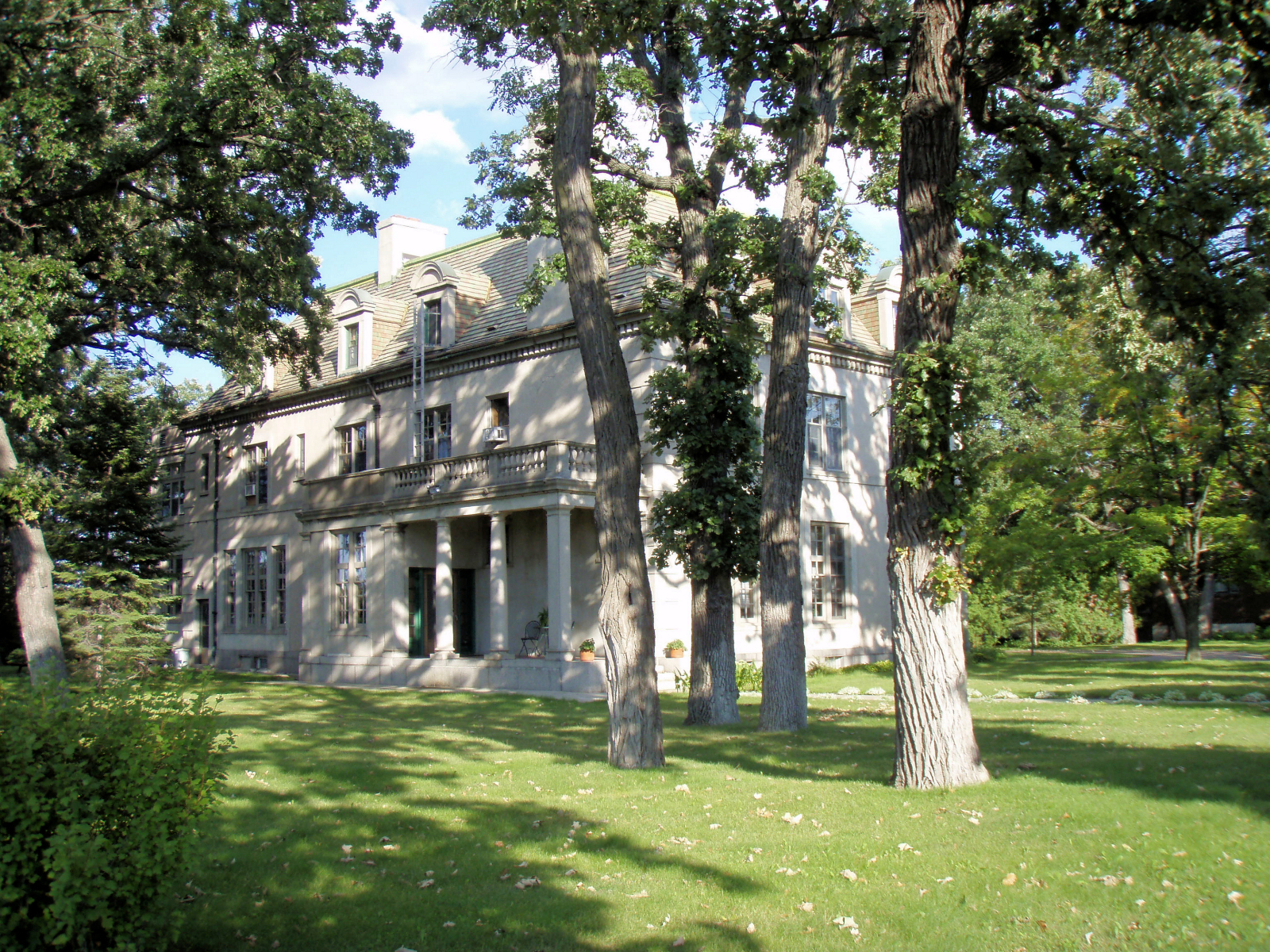 Bishop's House/Chancery Office in St. Cloud, Minnesota, listed on the National Register of Historic Places.